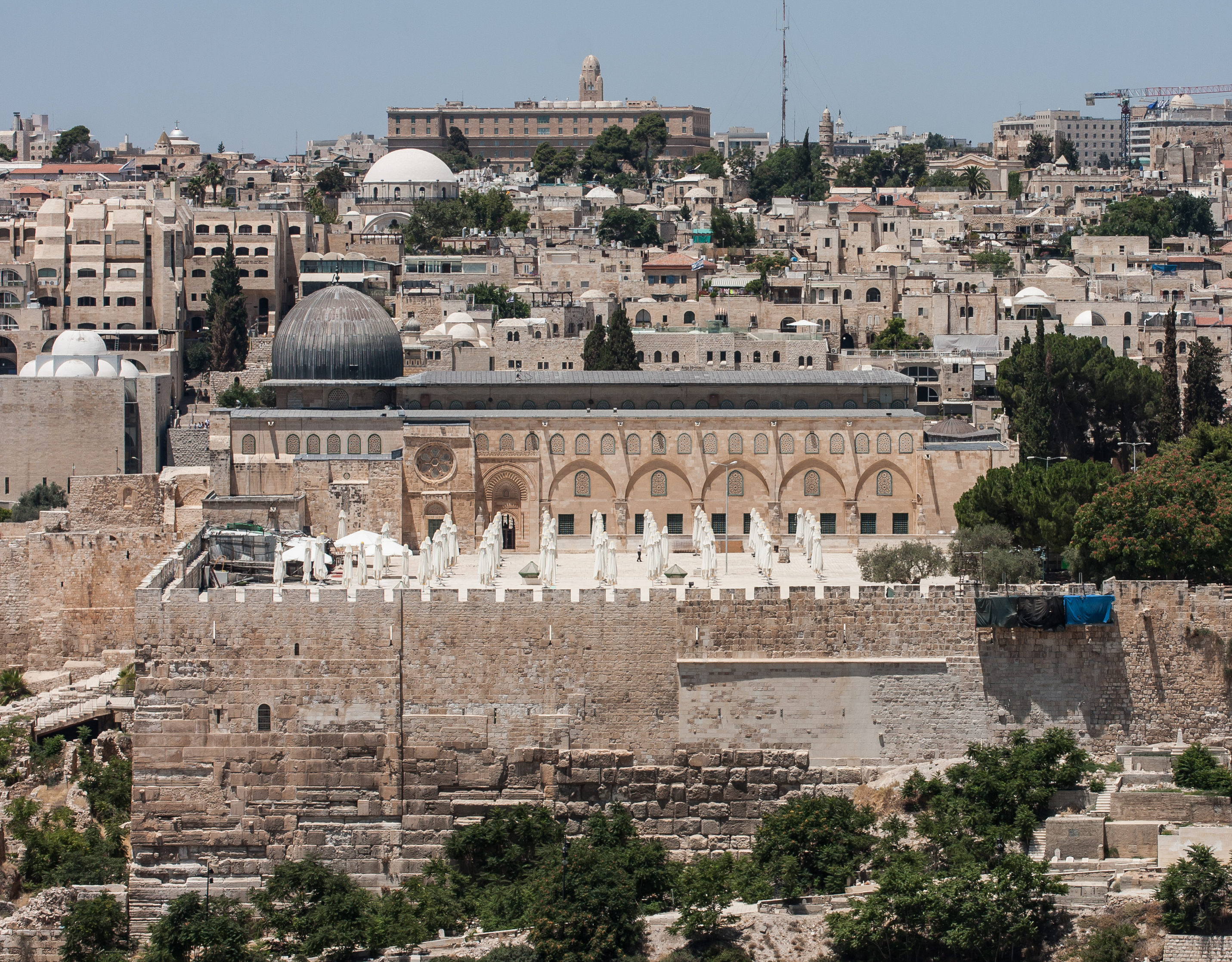 The al-Aqsa mosque in Jerusalem, as seen from the Mount och Olives.